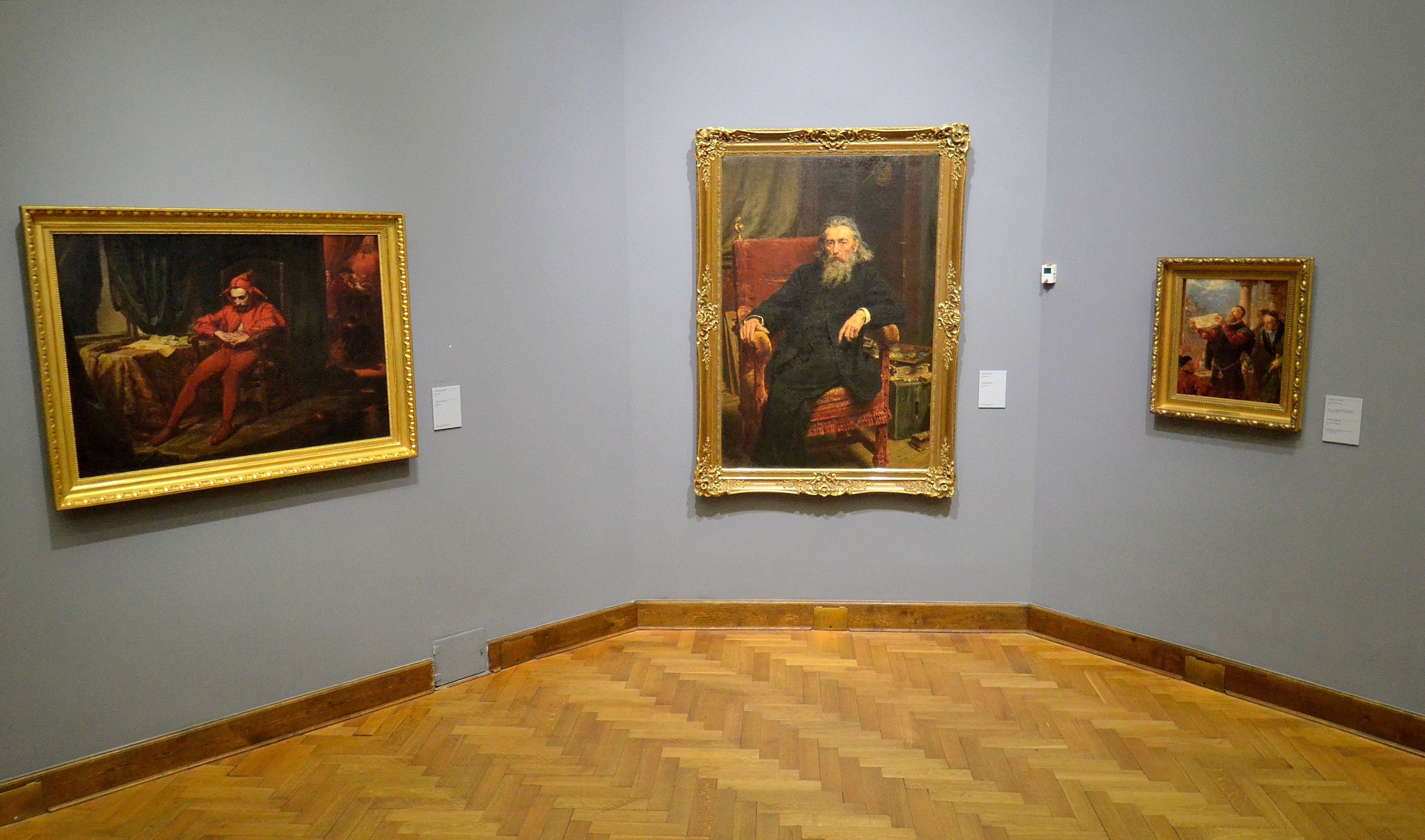 Jan Matejko hall in the National Museum in Warsaw